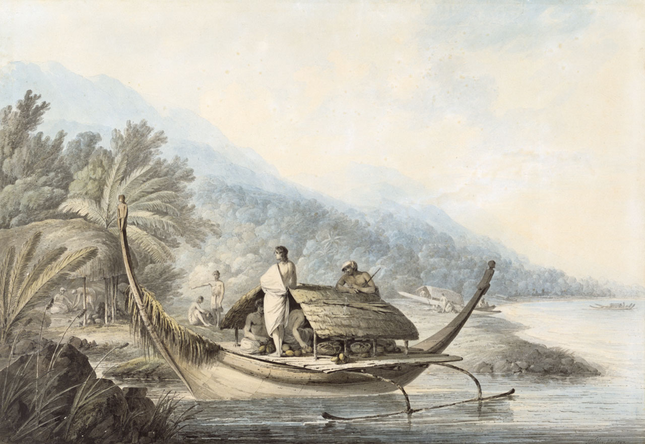 A View in Ulietea [Raiatea]. Framed watercolour drawing with pen and ink entitled "A View in Ulietea". The drawing has been signed by the artist and dated.